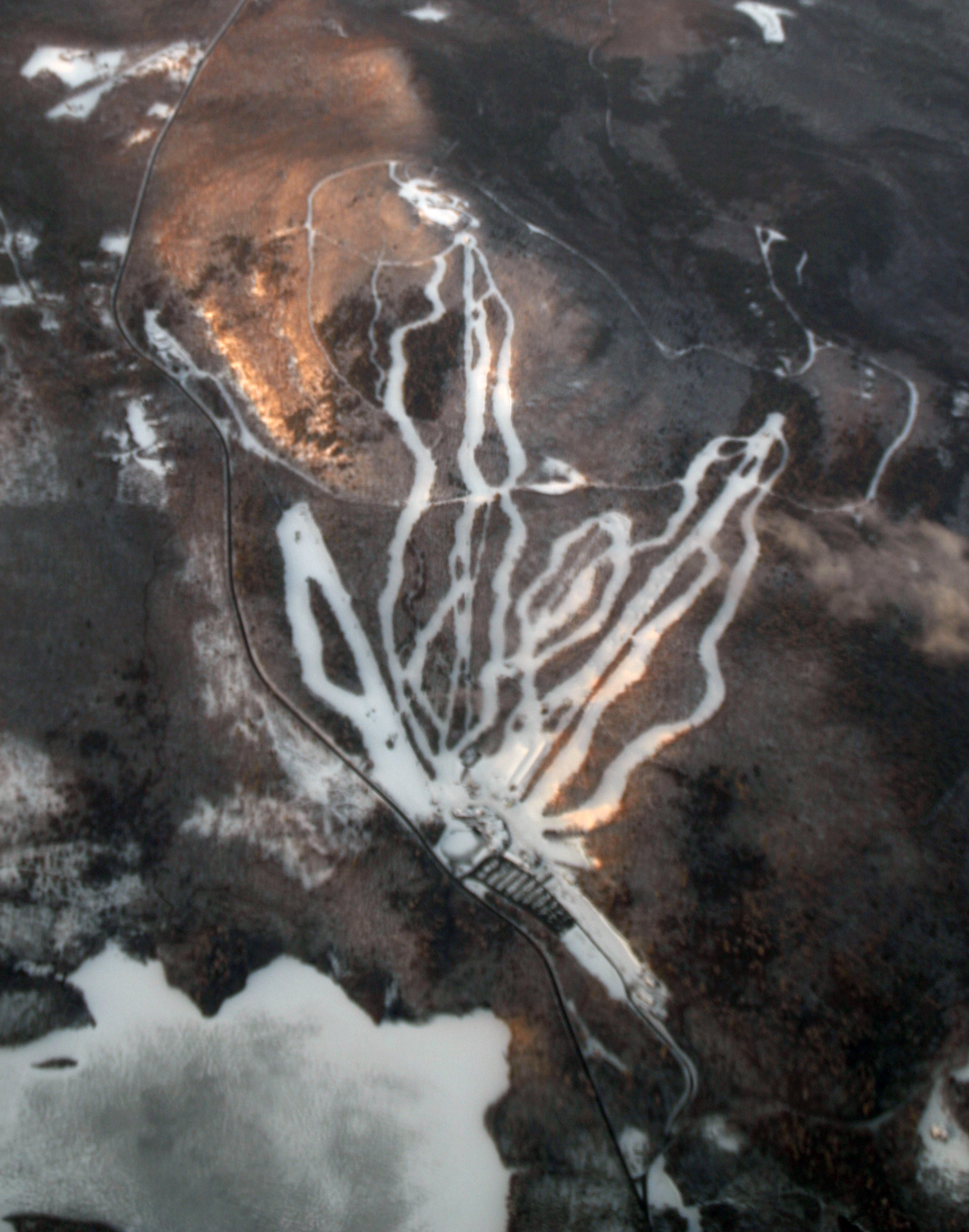 Wachusett Mountain ski resort.